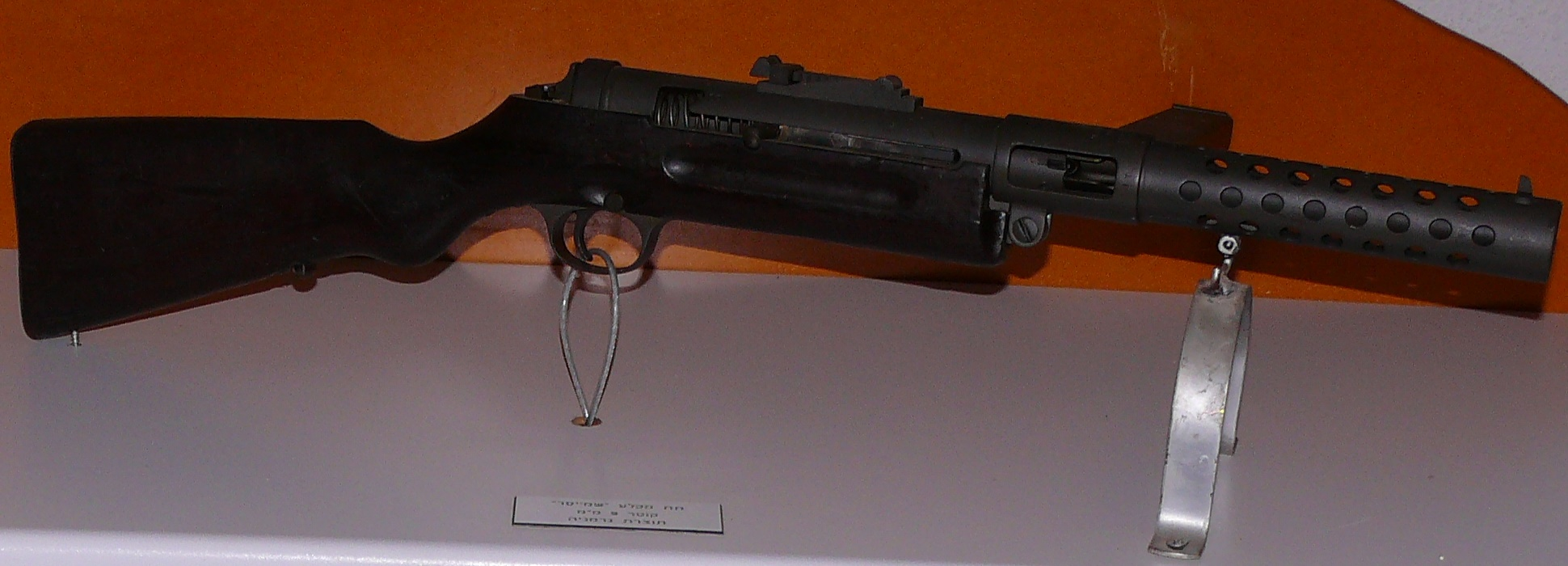 MP28 in Yoav Fortress